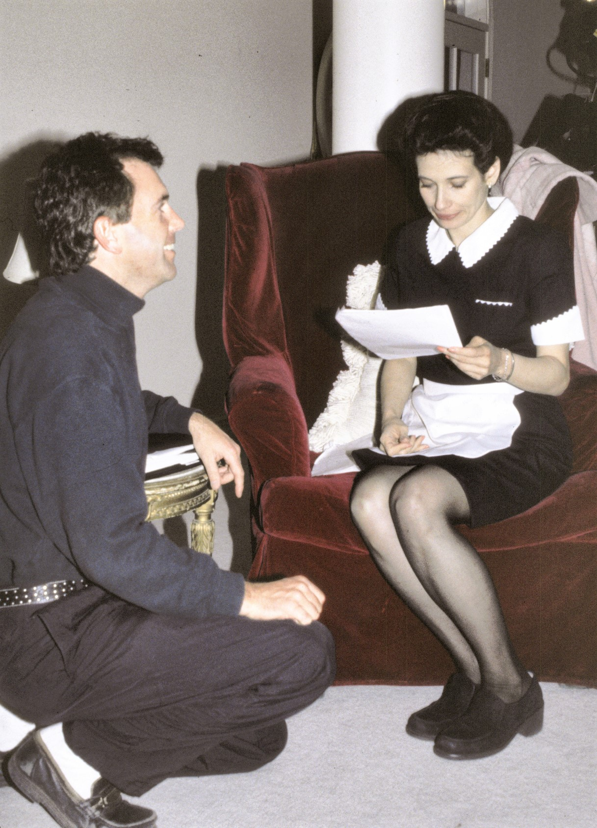 Photographed by James Brewer on-set still photographer of Illusion Infinity, commissioned by Sunset International AG